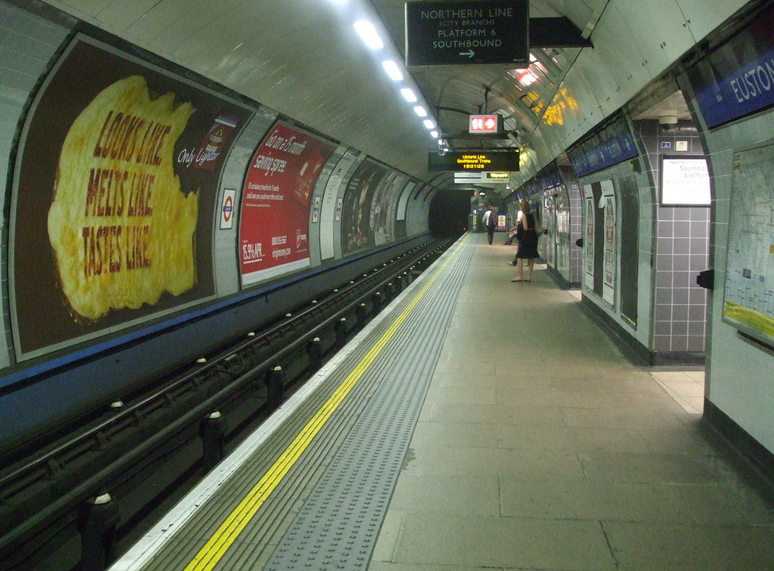 Euston tube station Victoria line southbound platform looking south